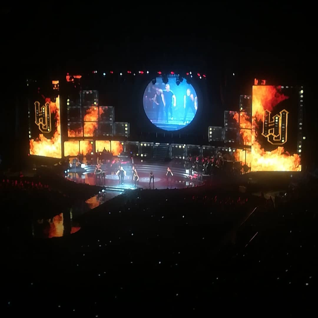 The European leg of "The Man. The Music. The Show." tour